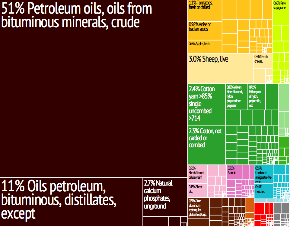 Syria Export Treemap from MIT Harvard Economic Complexity Observatory